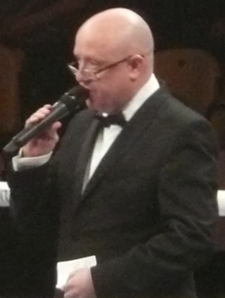 Ring announcer Mark Burdis at the Copper Box in London.